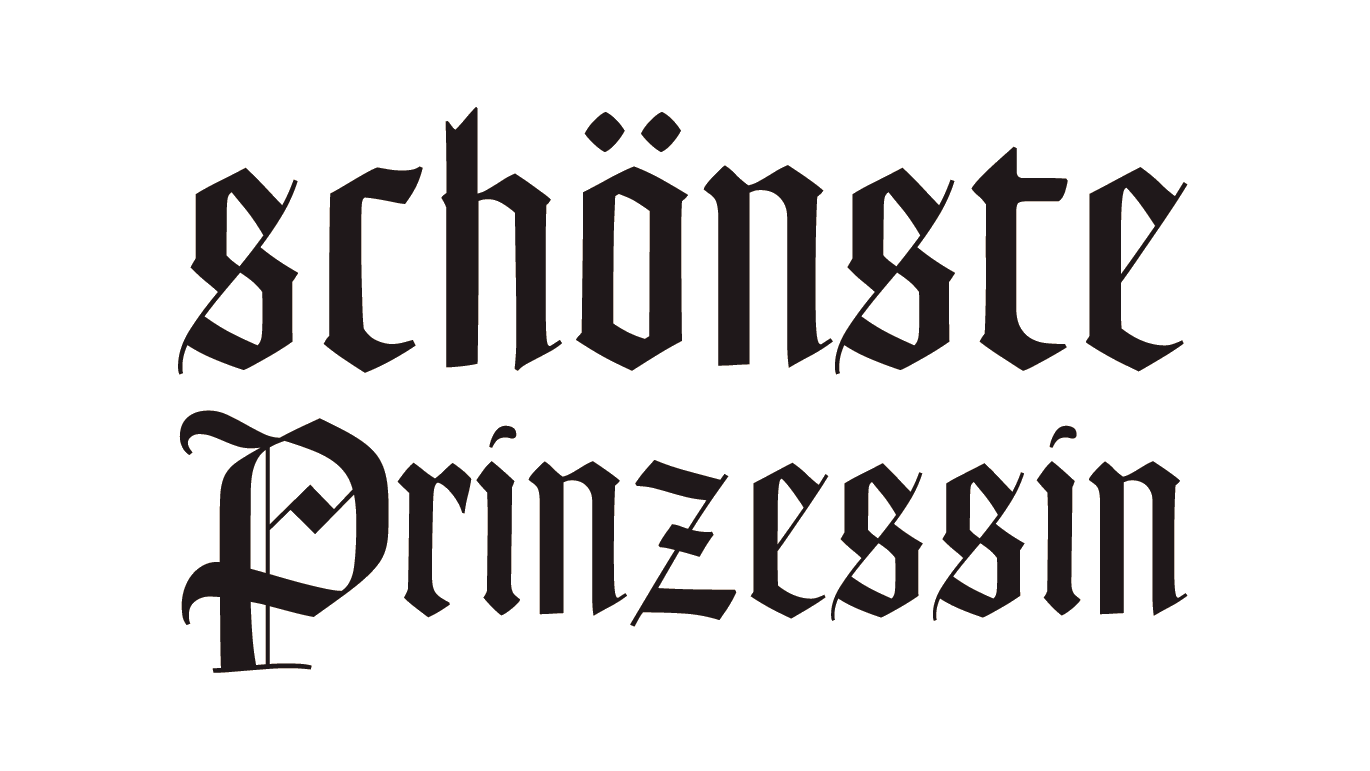 Sample of the font Goudy Text